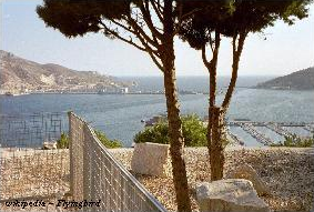 Harbour of Cartagena